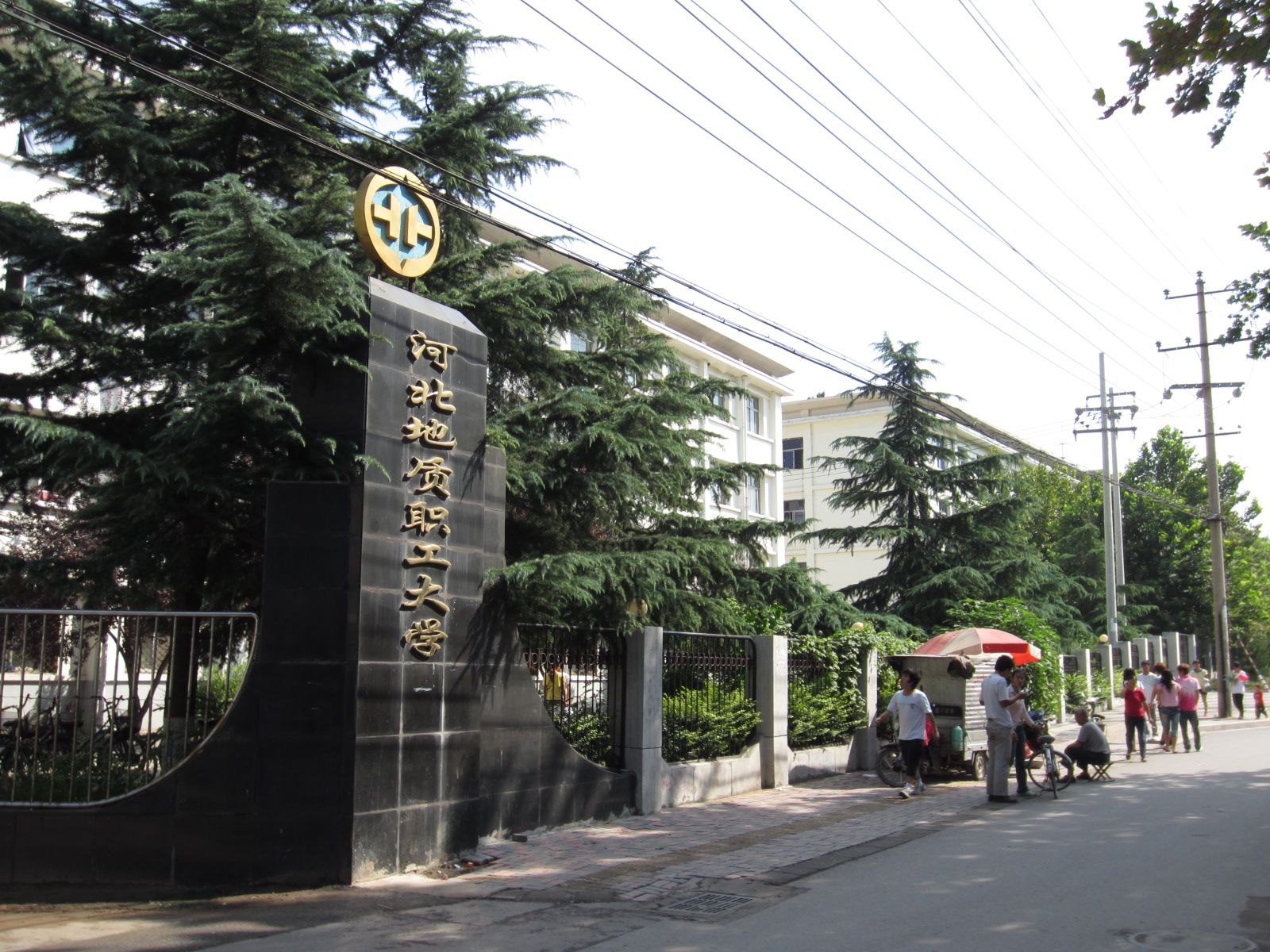 College gate.